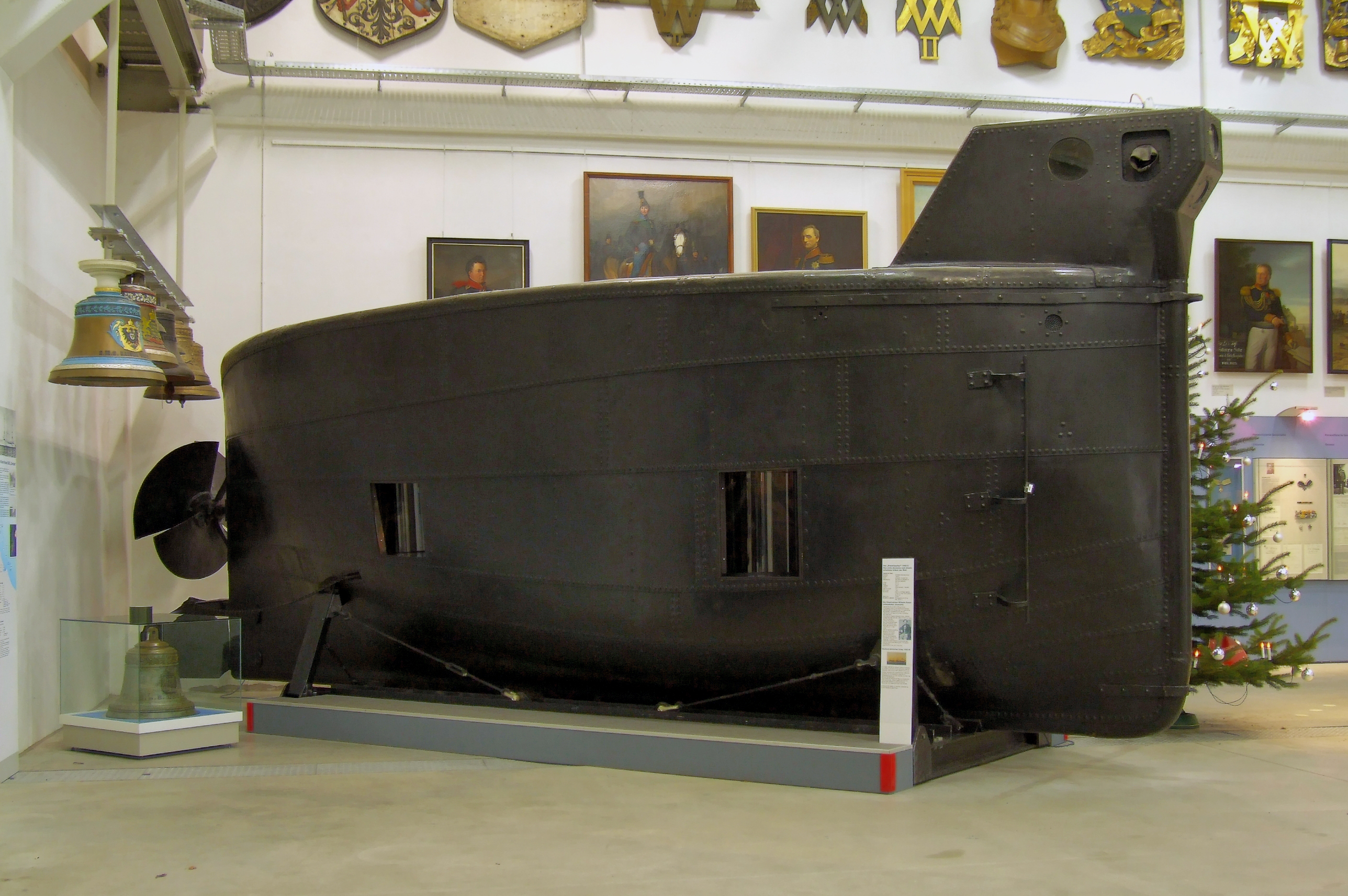 Brandtaucher - one of first submarines. Militärhistorisches Museum der Bundeswehr (Bundeswehr Military History Museum) in Dresden, Germany